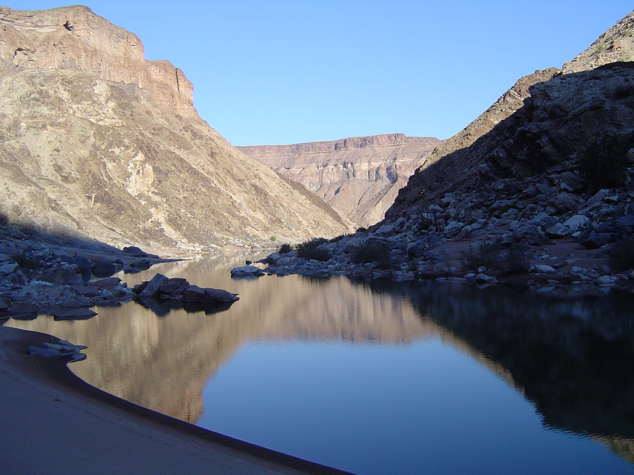 Early morning down in the Fish River Canyon